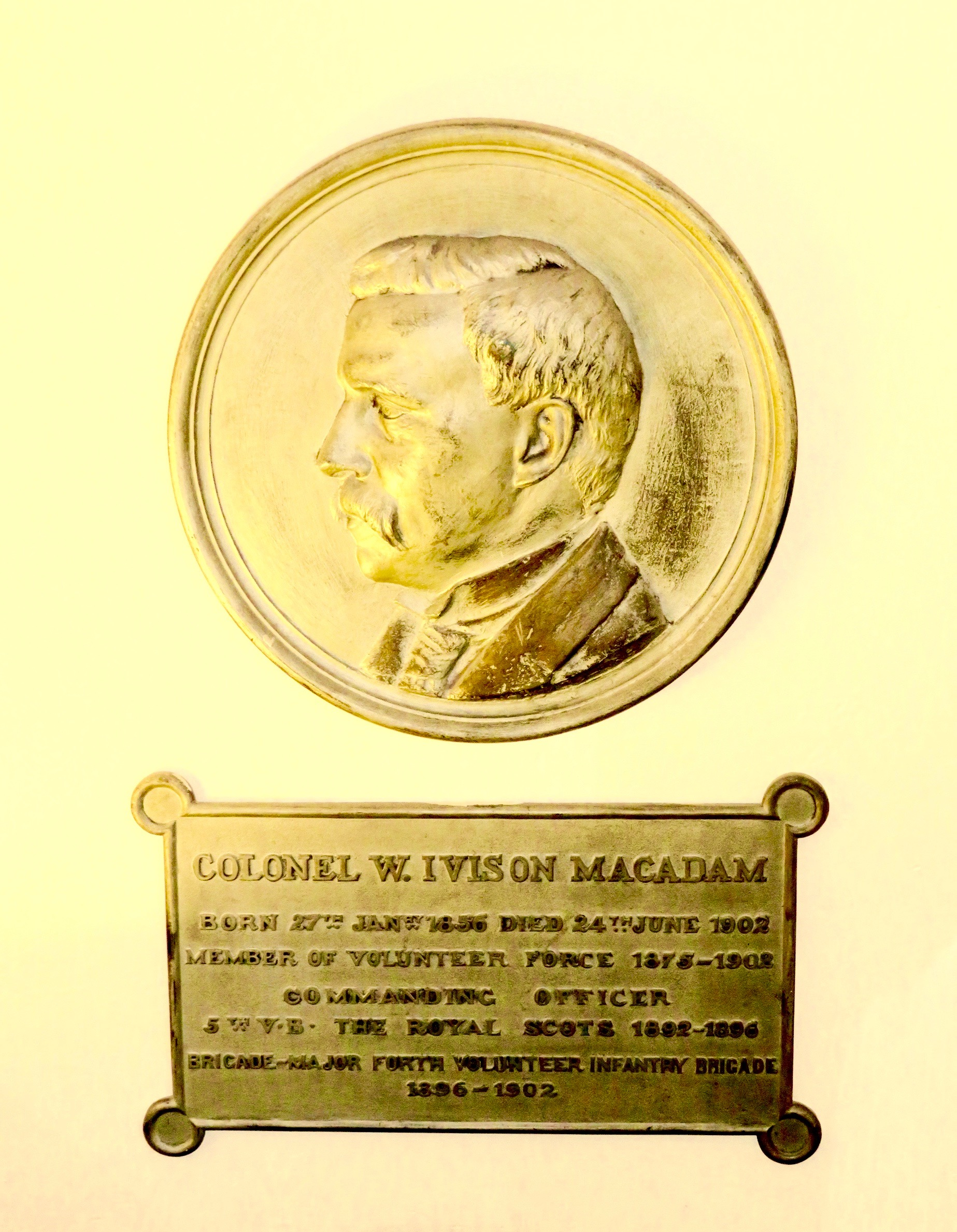 The Royal Scots monument in bronze of Colonel W. I. Macadam was unveiled at the Dalmeny Street Drill Hall, Leith by Sir John H. A. Macdonald K.C.B. (Lord Kingsburgh) on 21 December 1903. Later moved to Hepburn House Army Reserve Centre, 89 East Claremont Street, Edinburgh (New Town). Designed by W. Grant Stevenson RSA.